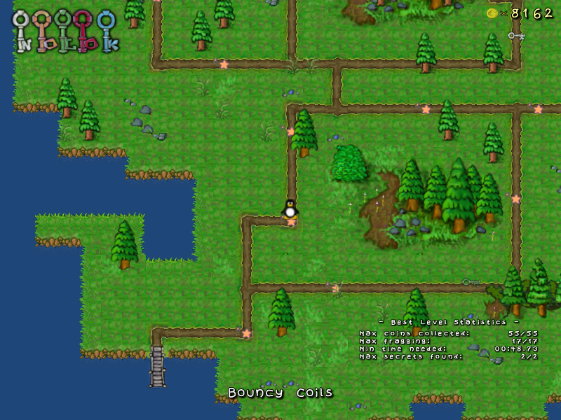 Tux in the overworld of the Forest World in SuperTux.